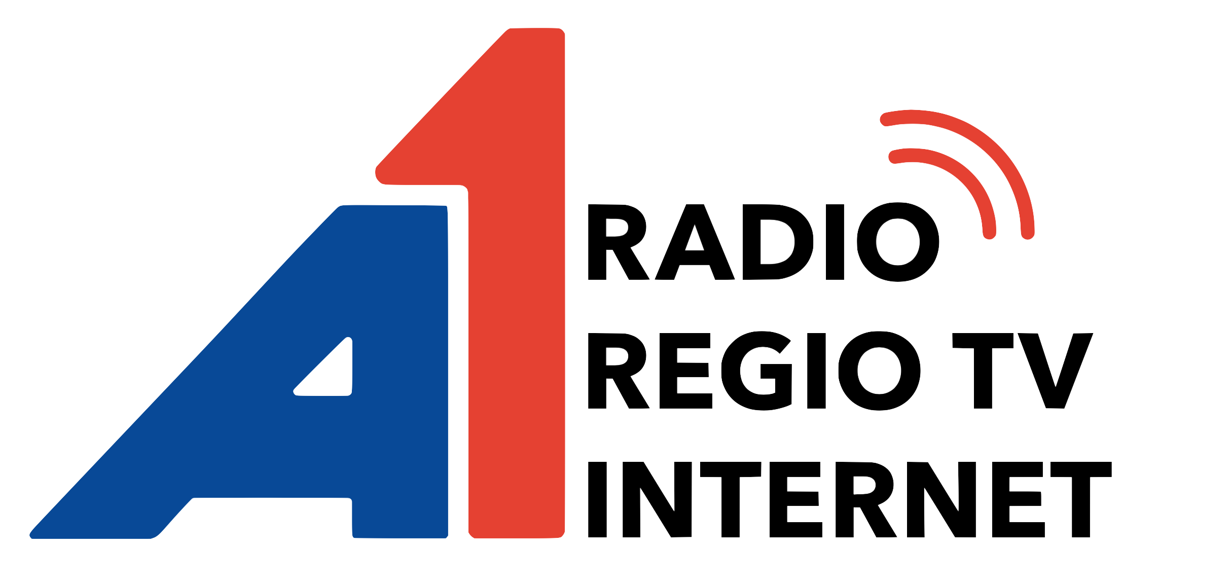 A1 Mediagroep official logo